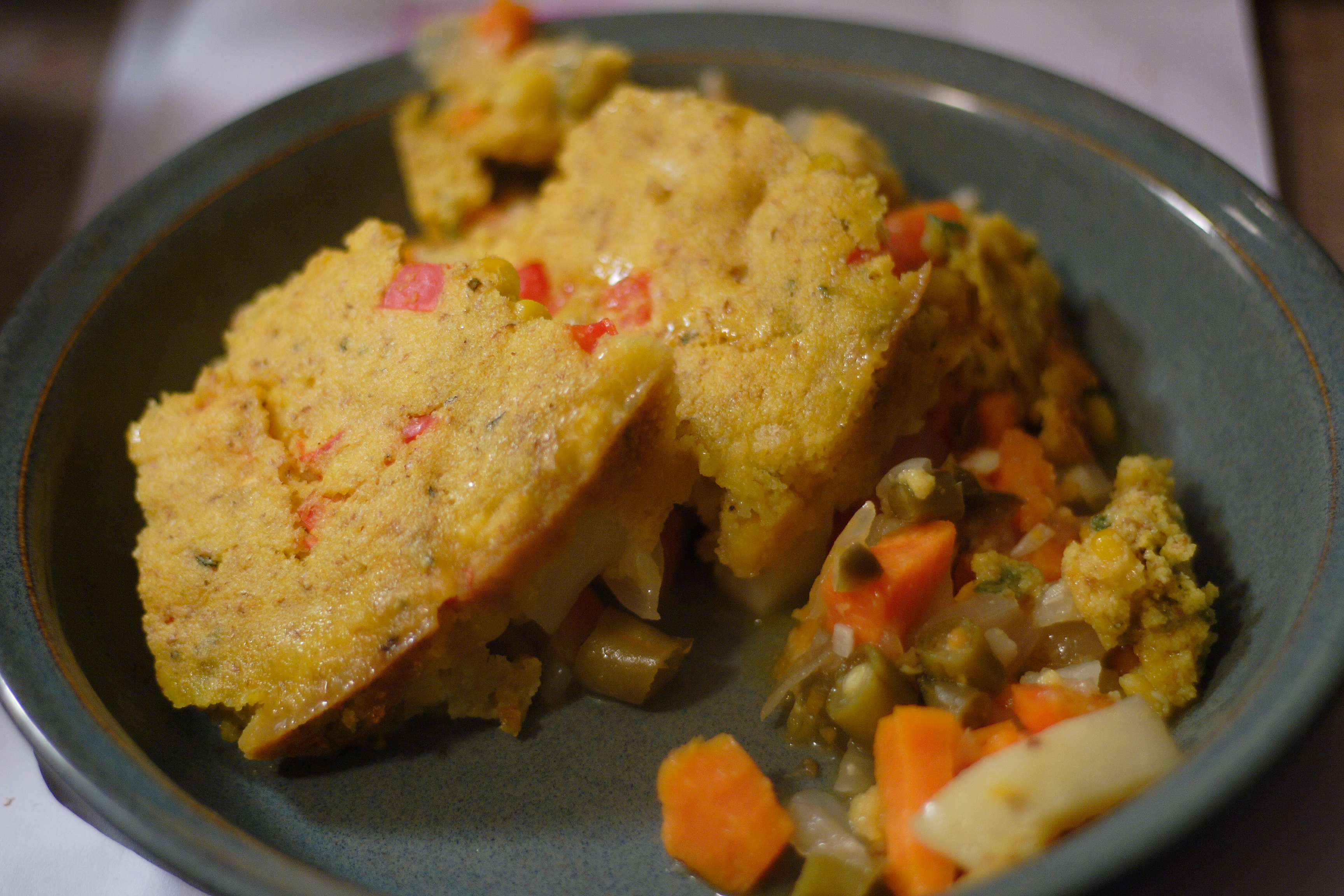 Close-up view of tamale pie. Yield: 6 servings Time: 1 hour 20 minutes Tools knife wok, Dutch oven, or large saucepan wooden spoon whisk 8-inch square baking dish 2 bowls Ingredients 3 T vegetable oil 2 c onions, chopped 2-3 cloves garlic, minced 1 t salt 1 fresh green chile*, minced OR 2 t minced chipotles in adobo sauce 2 t ground cumin 2 c water 1 c green beans, de-stemmed and diced 2 c potatoes, in ¾-inch cubes 2-3 c sweet potatoes, carrots, or butternut squash, in ¾-in cubes 1 T lime or lemon juice 1 c cheddar cheese, grated 1 c cornmeal 2 T white flour 1½ t baking powder ½ t baking soda ½ c corn (fresh, canned, or frozen) ½ c red bell pepper, diced 2 T fresh cilantro, minced 2 eggs ½ c buttermilk Directions Heat 1 T oil and sauté onions, garlic, ½ t salt, and chile about 10 minutes, stirring frequently, until the onions begin to brown. Preheat oven to 350. Add cumin, water, green beans, potatoes, and sweet potatoes and bring to a boil. Reduce heat and let simmer about 20 minutes, until tender. Stir in lime juice and pour into lightly-oiled baking dish. While the potatoes are cooking, combine cornmeal, flour, baking powder and soda, remaining ½ t salt, corn, bell peppers, and cilantro in one bowl, and whisking the eggs, buttermilk, and remaining 2 T oil together in the other. Combine the wet into the dry, folding until just mixed. Sprinkle cheddar cheese on top of the vegetable mixture in the baking dish, then spread the egg/cornmeal mixture evenly on top. Bake 30 minutes, until a knife or toothpick inserted into the cornmeal topping comes out clean. Serve hot.